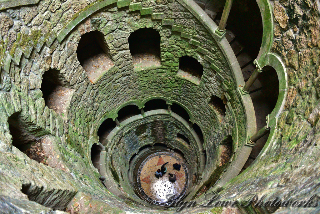 Initiation Well in Quinta da Regaleira (Sintra) AKA initiatic wells or inverted towers The 'Initiation' Well contains a 27-meter spiral staircase with several small landings. The spacing of these landings, combined with the number of steps in the stairs, are linked to Tarot mysticism.